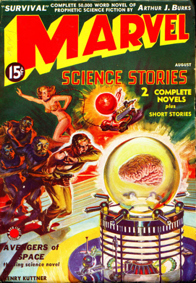 Cover of Marvel Science Stories, August 1938